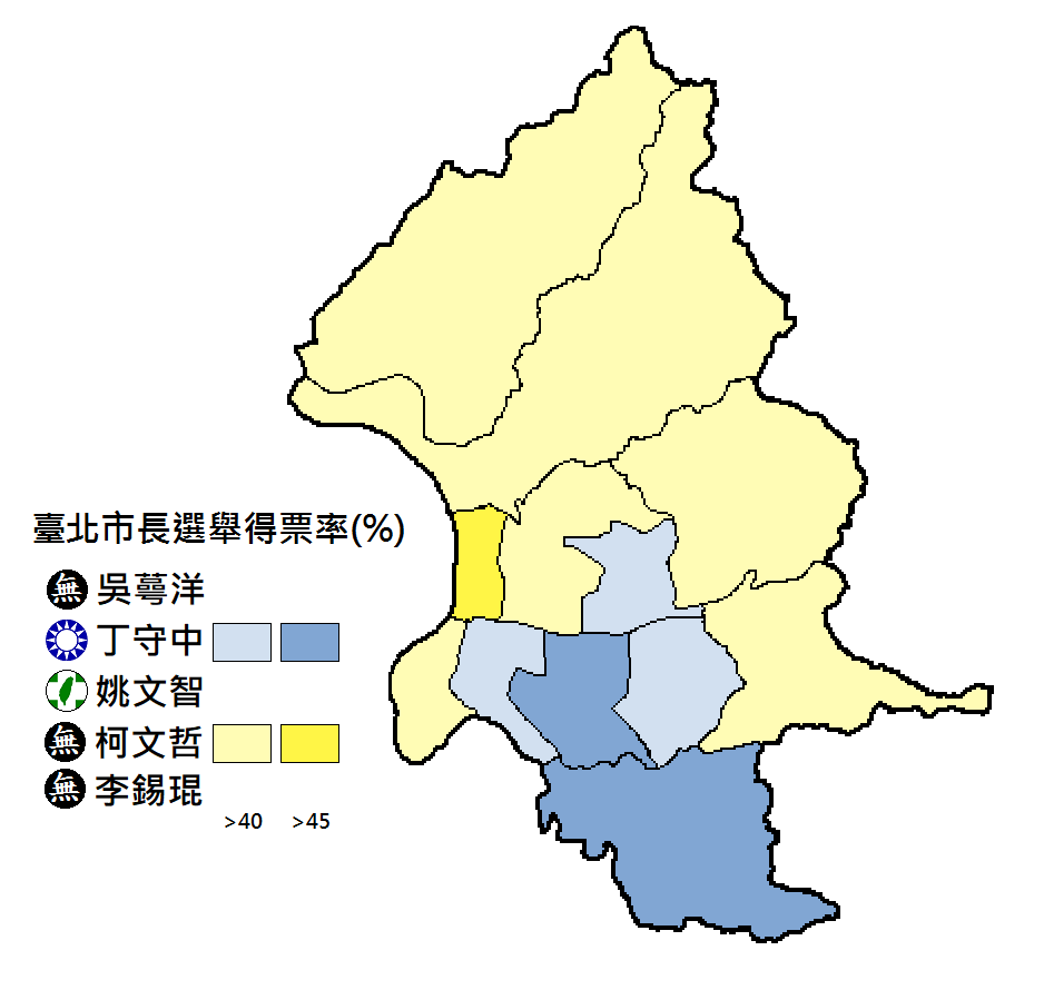 This is a result of the local election in Taiwan, in specific, Taipei